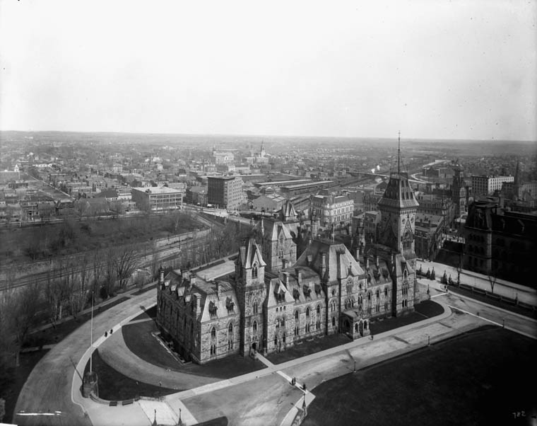 East Block, Parliament Hill, Ottawa, Canada.